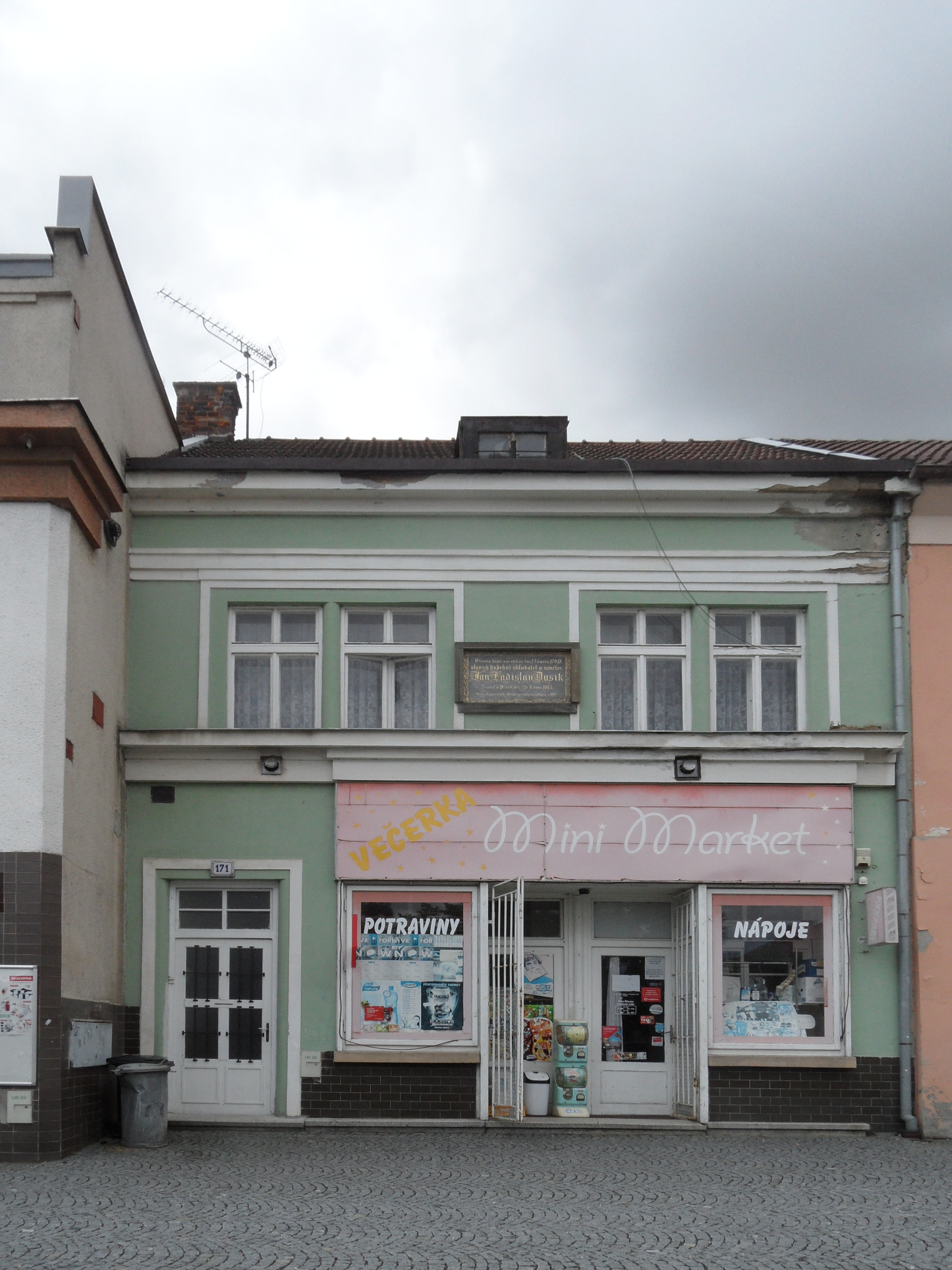 Čáslav, pianist, composer and pedagogue Jan Ladislav Dusík: House with Memorial Plaque (nám. Jana Žižky z Trocnova 171/48). Kutná Hora District, the Czech Republic.